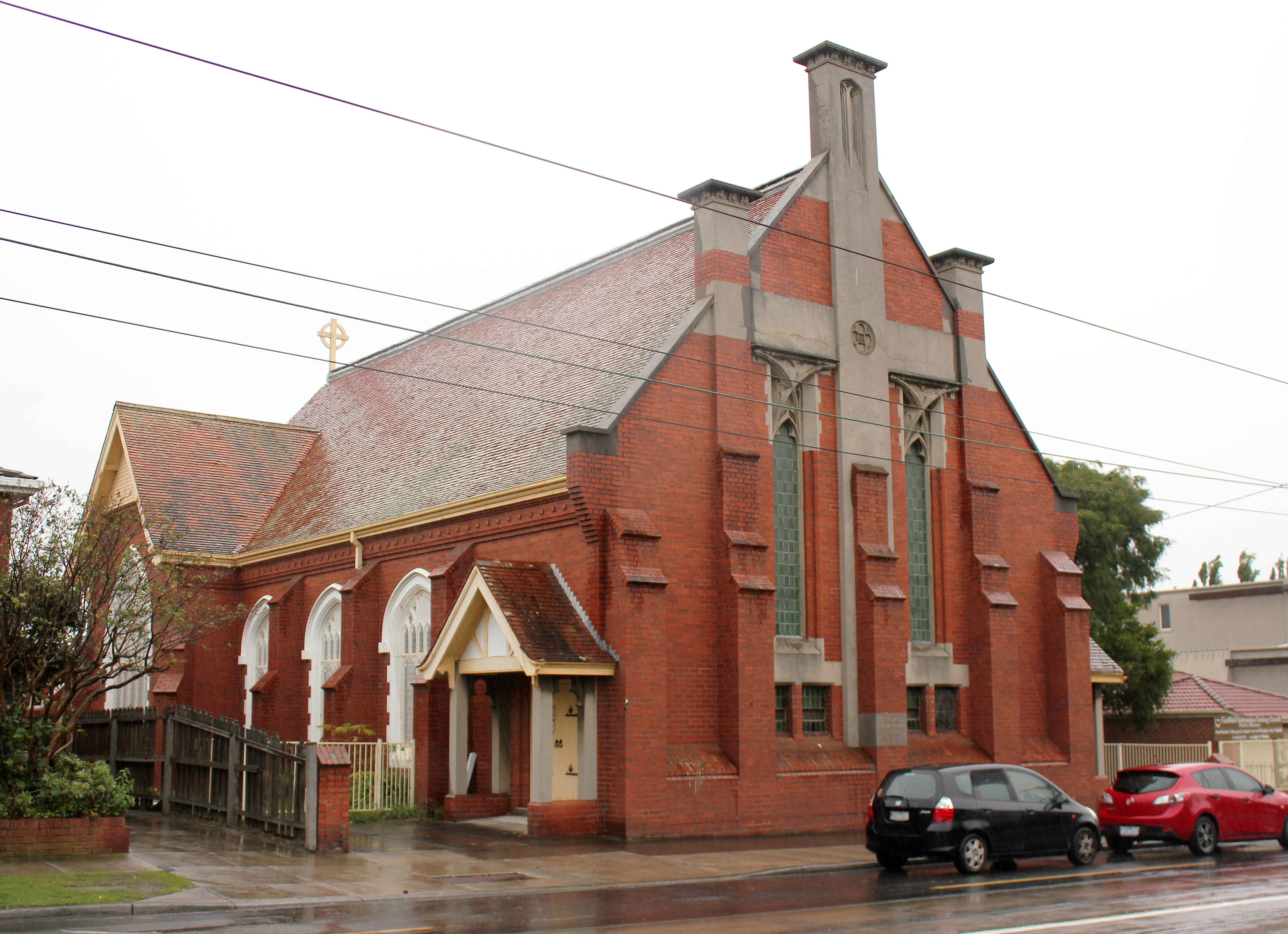 St Stephen's Church. 158 Balaclava Rd Caulfield North, Victoria Australia. Designed by Robert Joseph Haddon, 1906.